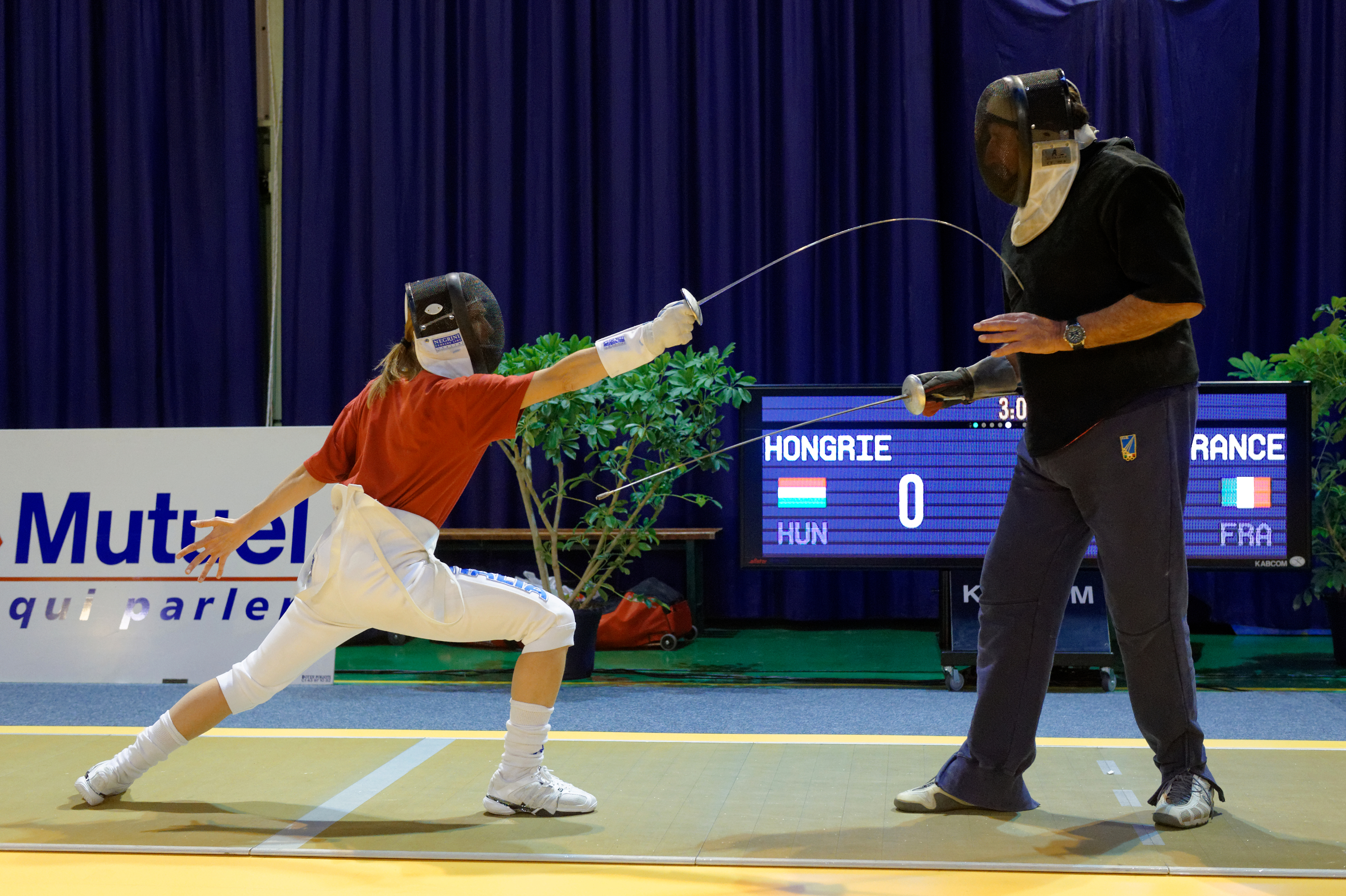 Italy's Valentina Vezzali receives a plastron lesson from Giulio Tomassini at the Saint-Maur Women's Foil World Cup.